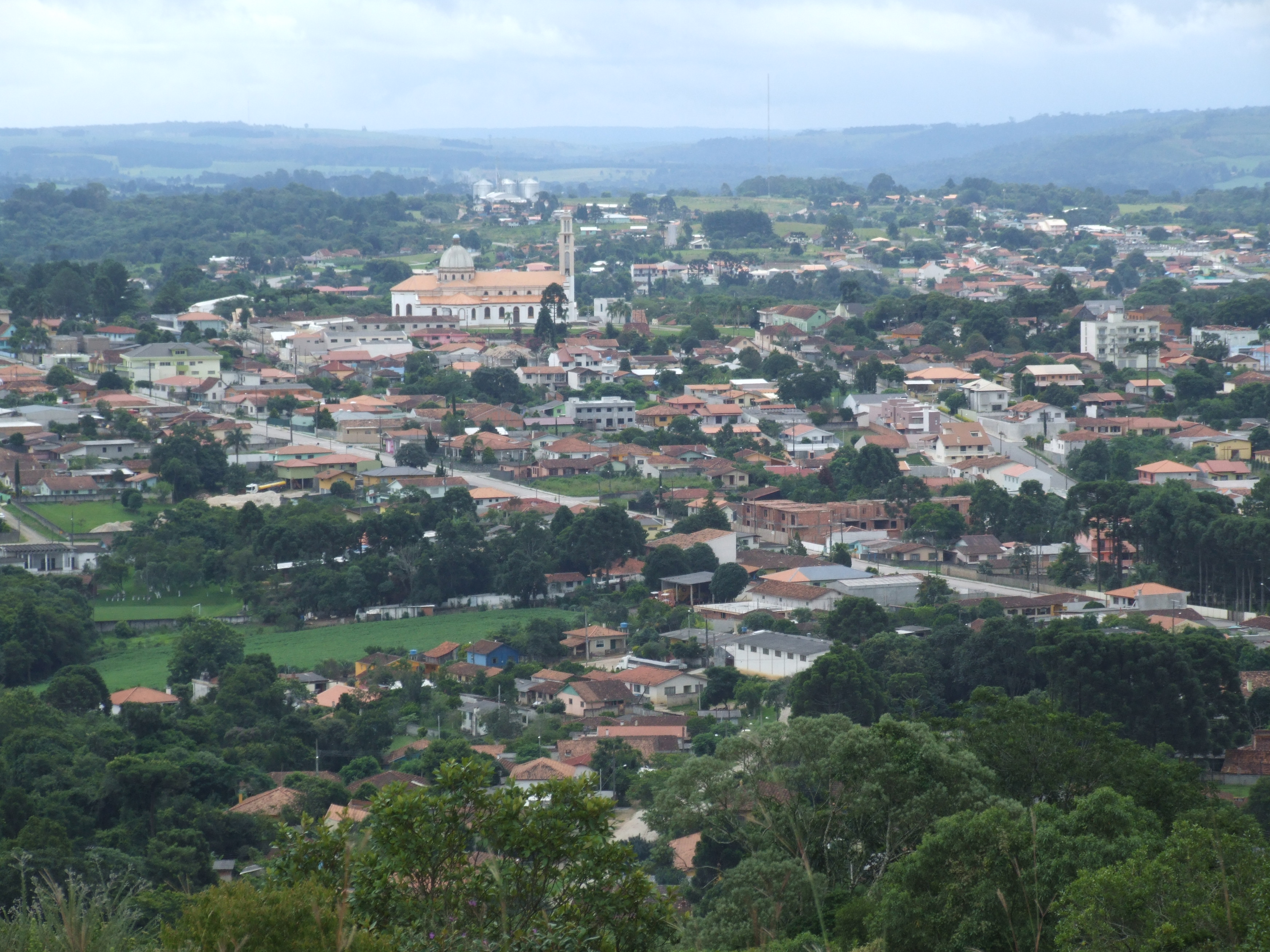 Aerial sight of Lapa City, Paraná, Brazil.